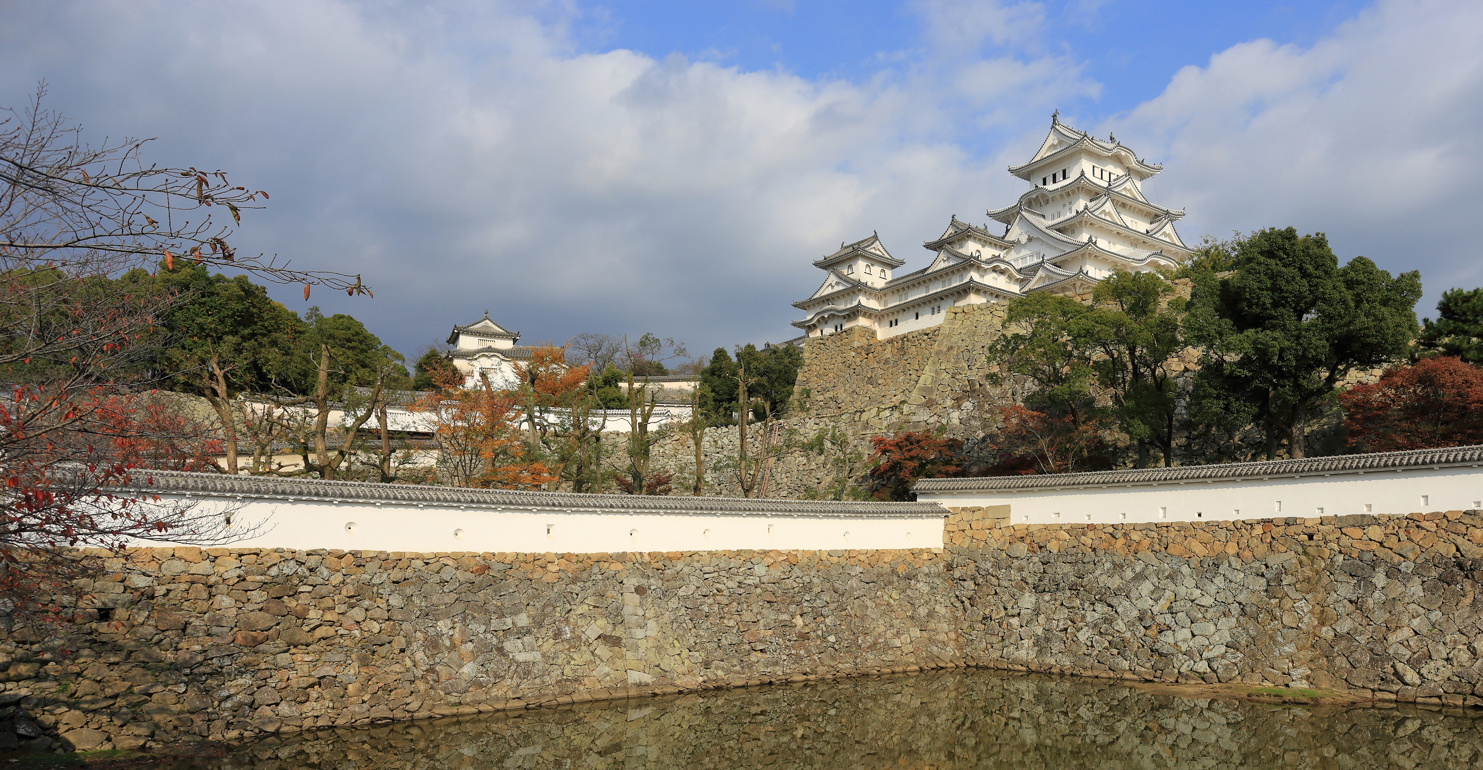 Himeji Castle, UNESCO World Heritage Site Ref. Number 661, is a hilltop Japanese castle complex located in Himeji, Hyōgo Prefecture. The castle is regarded as the finest surviving example of prototypical Japanese castle architecture, comprising a network of 83 buildings with advanced defensive systems from the feudal period.